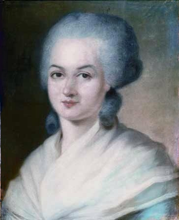 Portrait of Olympes de Gouges (1748-1793)